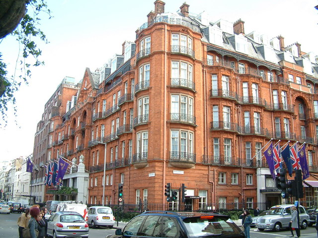 Claridges Hotel This luxury 5-star hotel was built in 1898